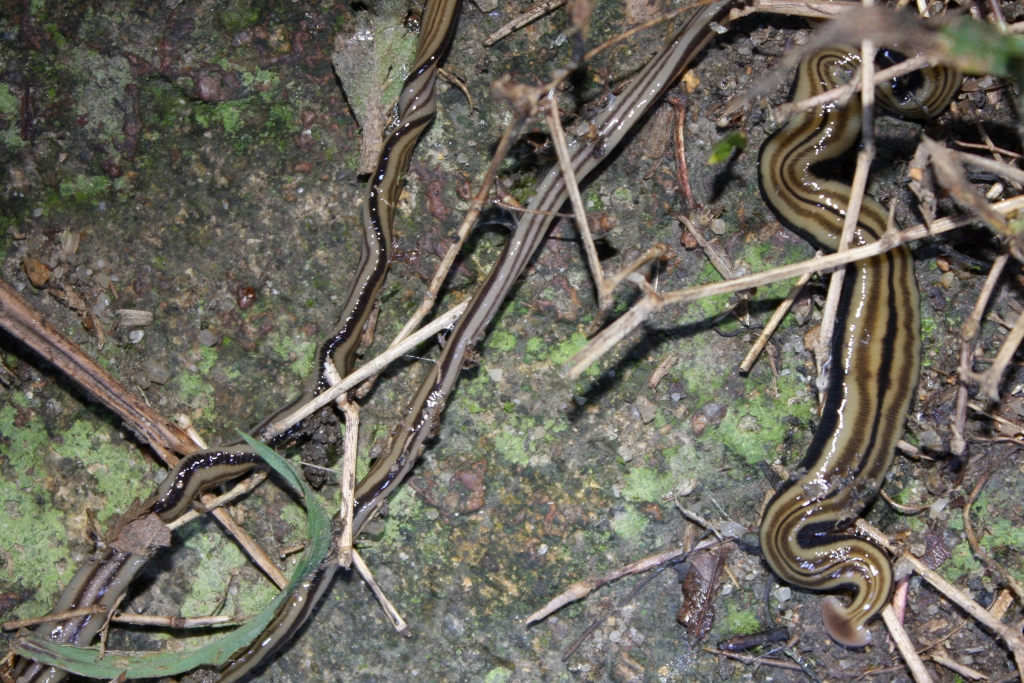 Taken at Tai Mo Shan, this was nearly 60cm long.